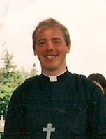 Auxiliary Bishop Everard de Jong of Roermond